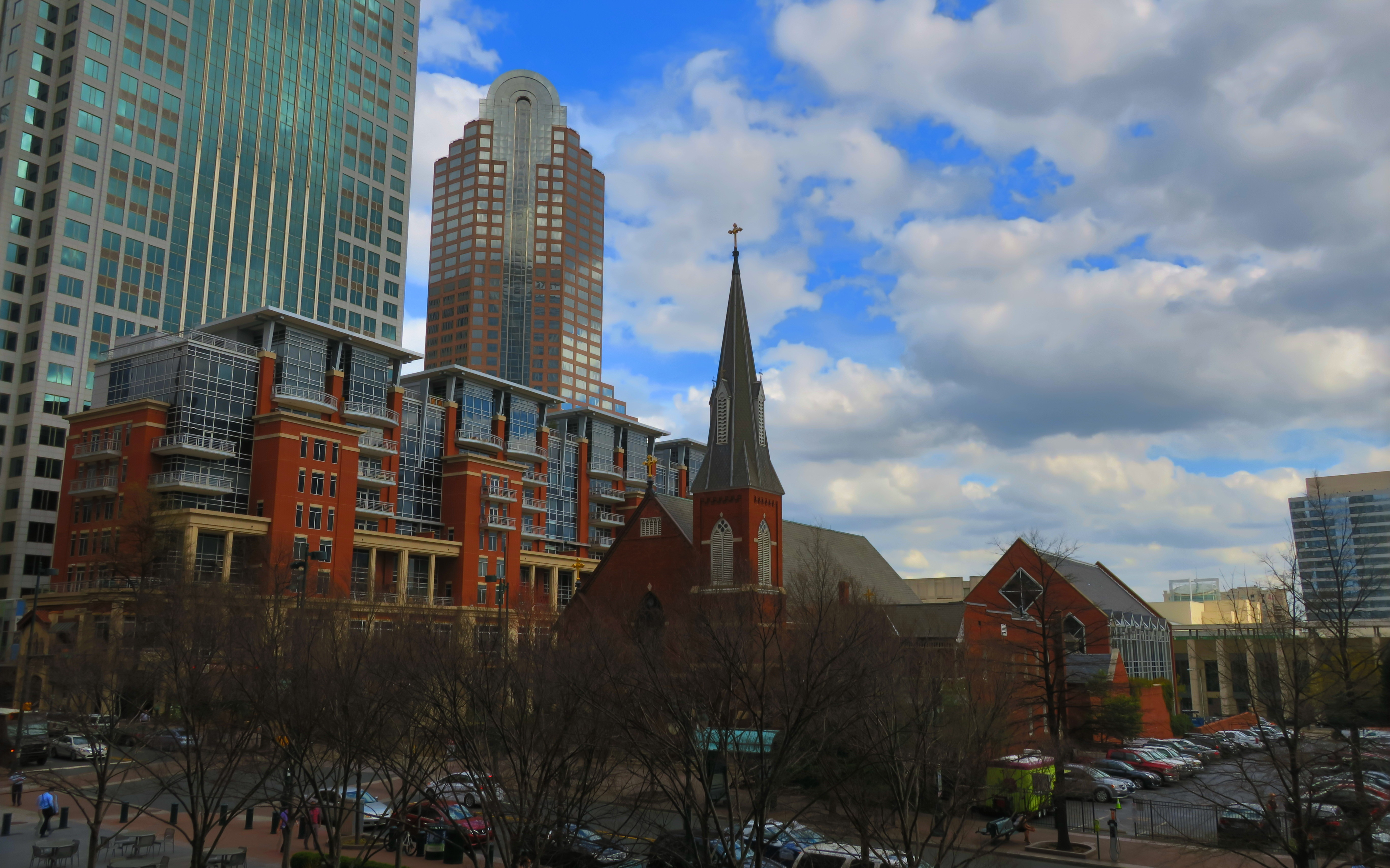 Saint Peter Catholic Church (Charlotte, North Carolina) - view from Mint Museum